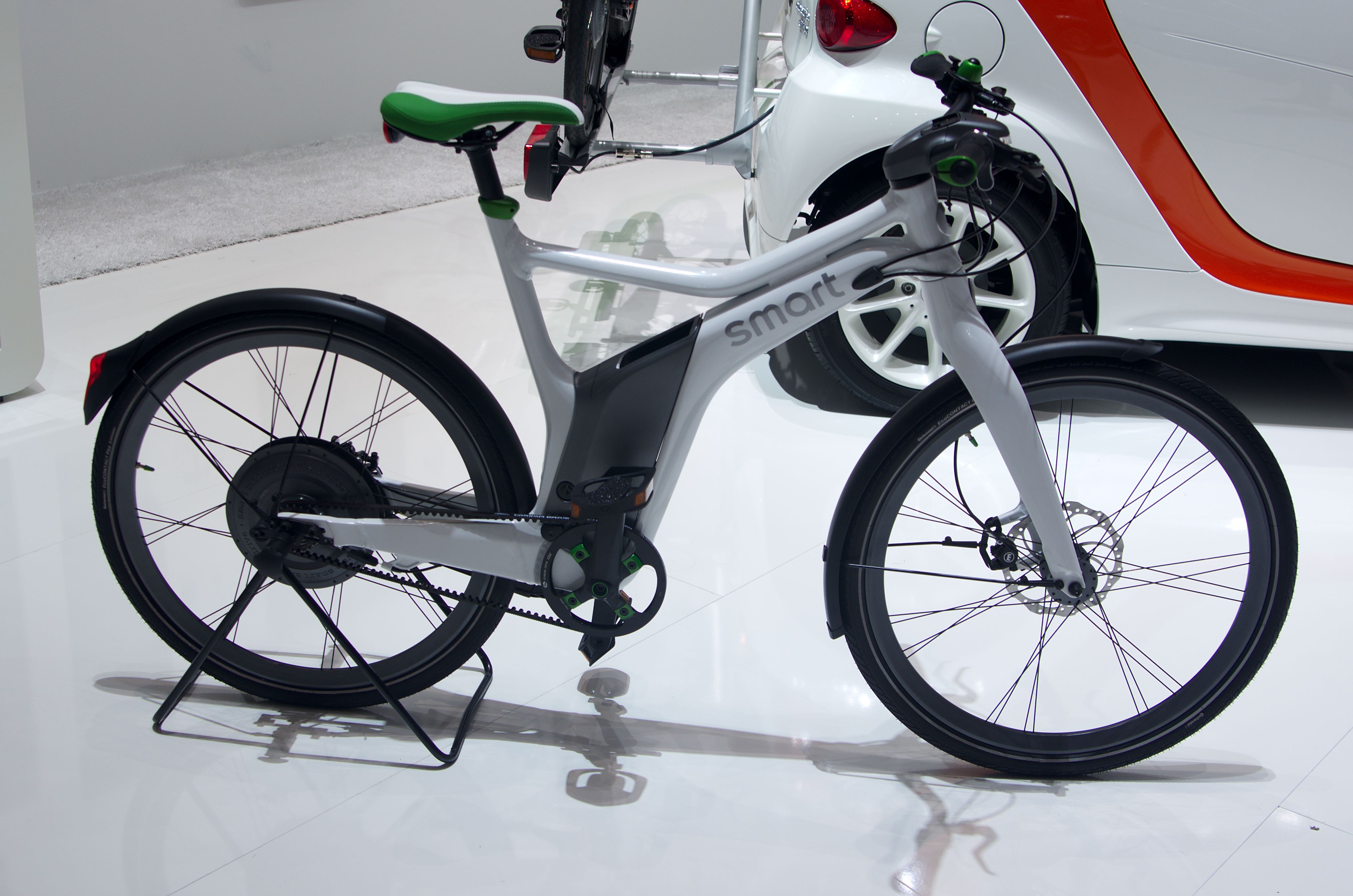 Geneva MotorShow 2013 - Smart electric bike left view